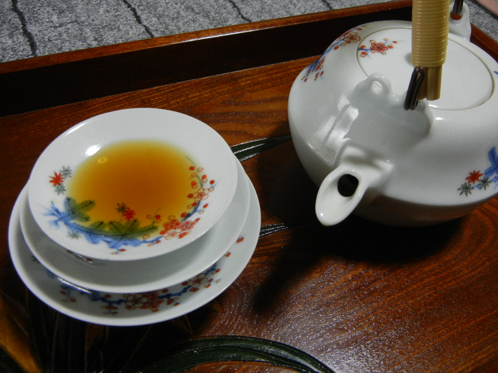 Akazake_Kumamoto. 熊本県で生産されている「赤酒」, Omuta.